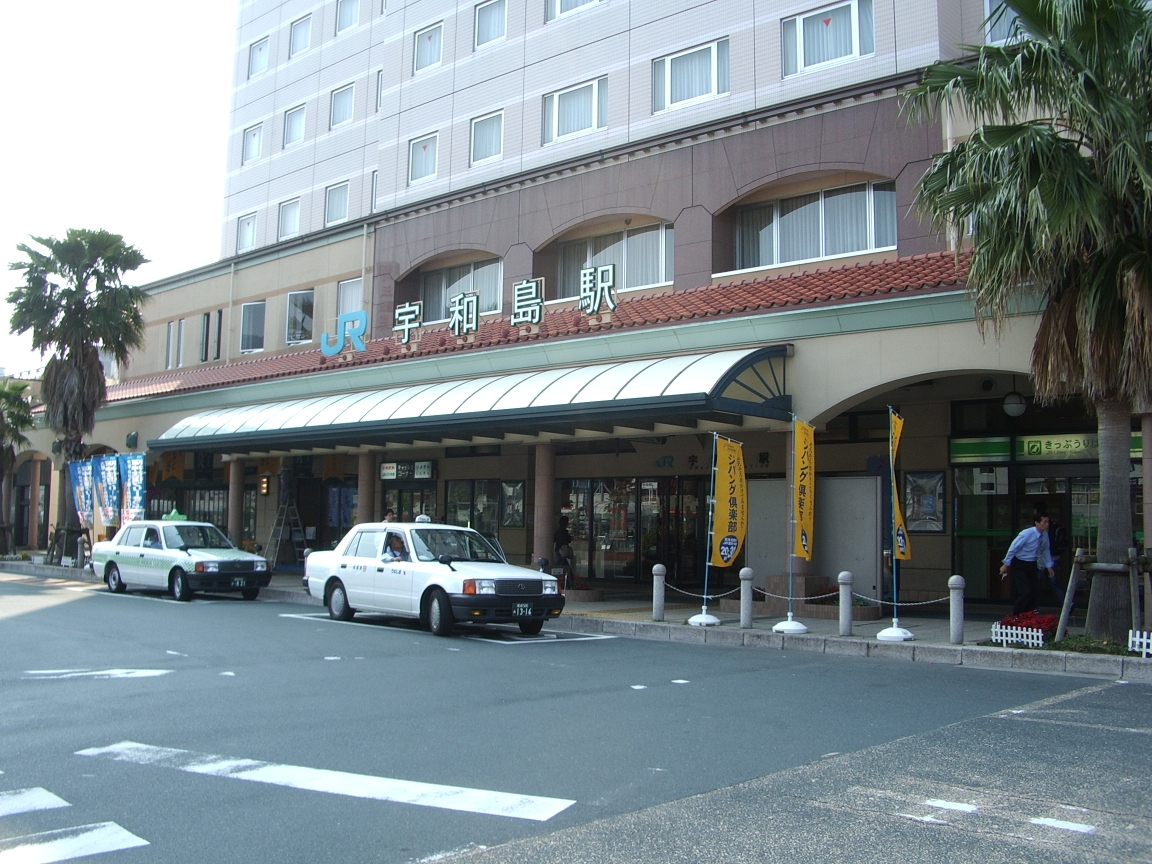 Exit of Uwajima Station (JR Shikoku)